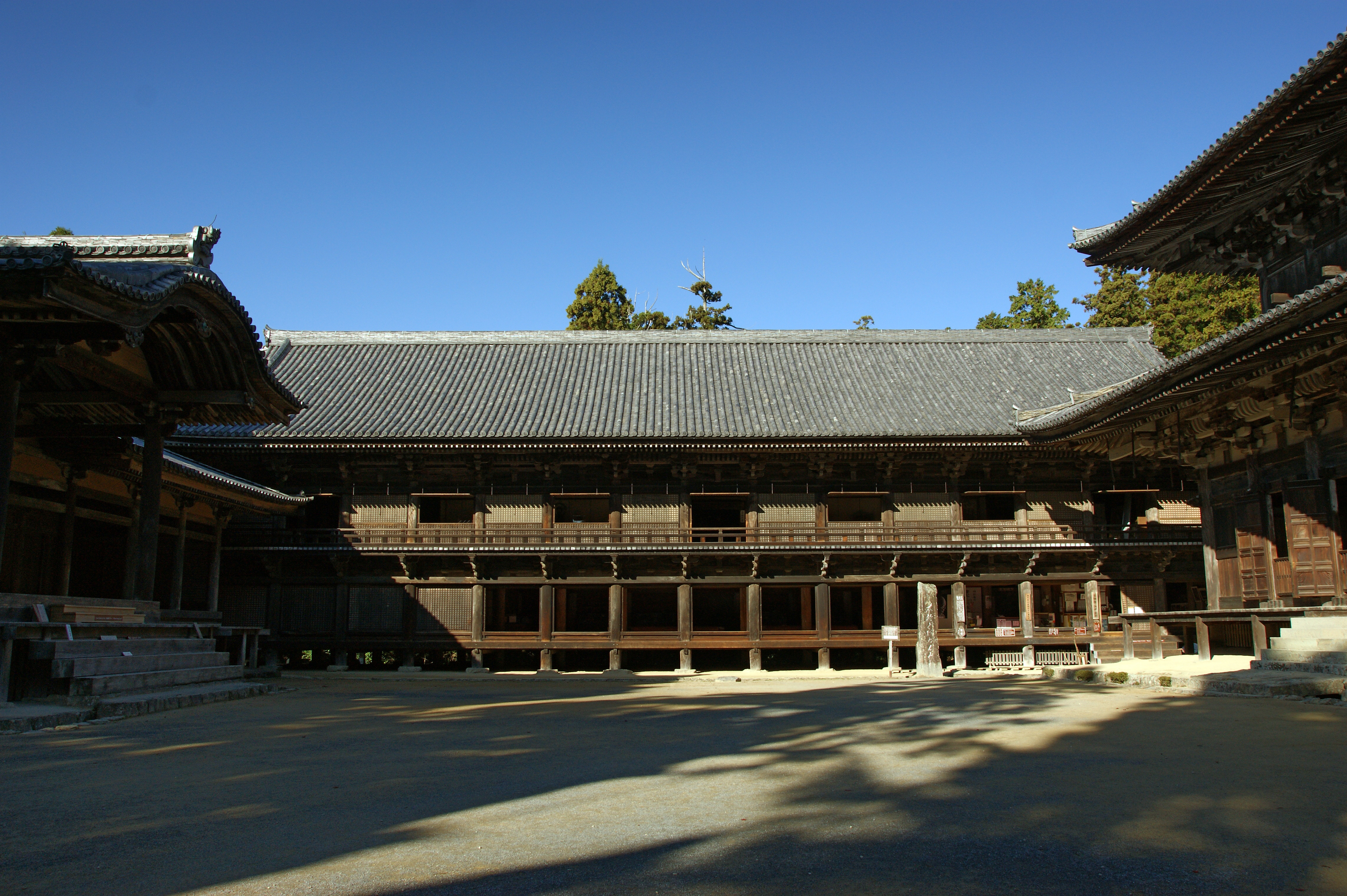 Engyoji, Himeji, Hyogo prefecture, Japan